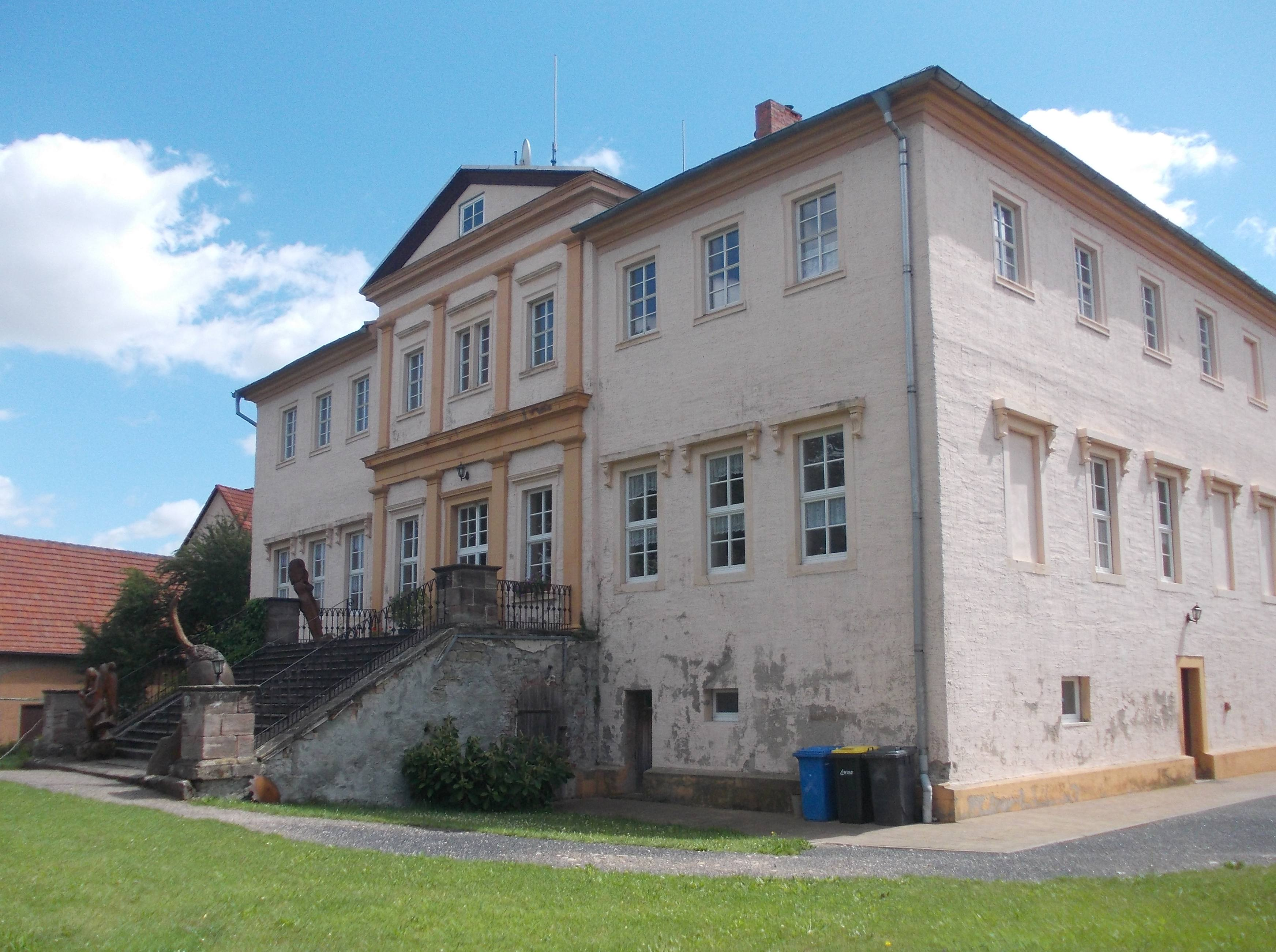 Manor house of Wohlmistedt Estate, also called Wohlmirstedt Castle (Kaiserpfalz, district: Burgenlandkreis, Saxony-Anhalt)